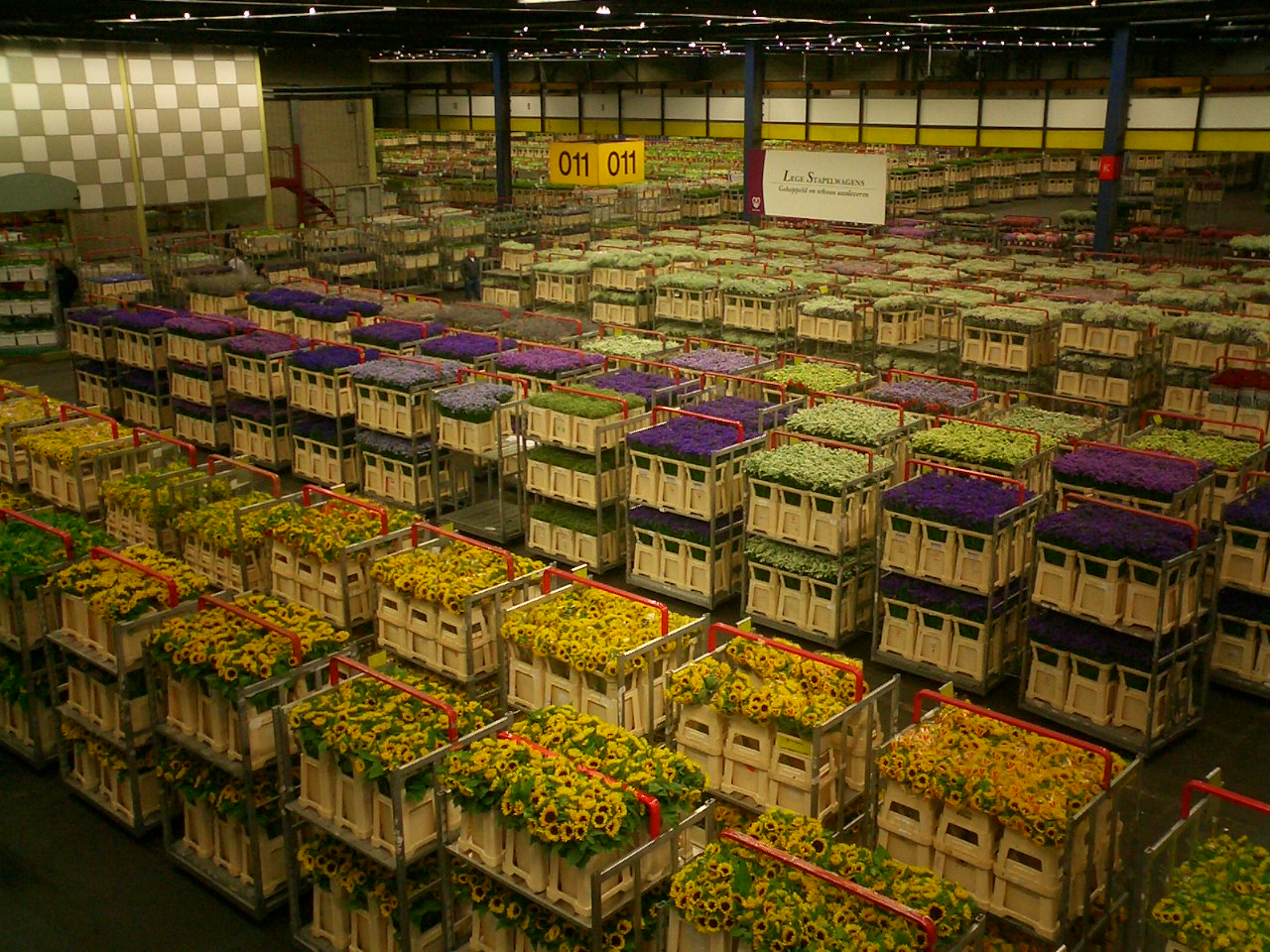 Flowerauction Aalsmeer Inside.